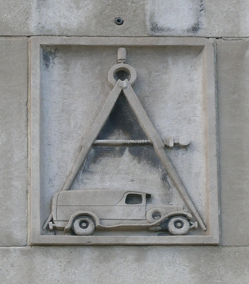 The Autocar Service Building, at the corner of Piquette Avenue and Brush Street in Detroit, Michigan, United States, lies within the Piquette Avenue Industrial Historic District. This relief is found above the front door of the building.